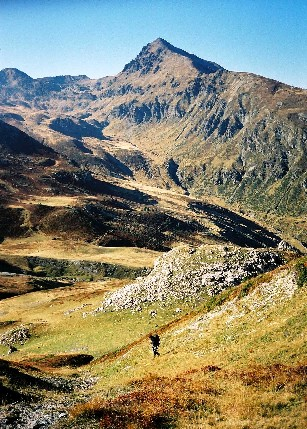 The Koshare mountain region in Prokletije, Serbia.